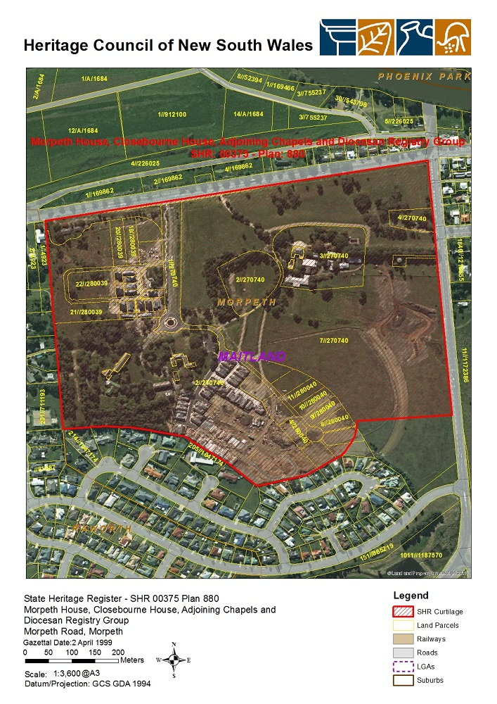 Morpeth House and Closebourne House: SHR Plan 880